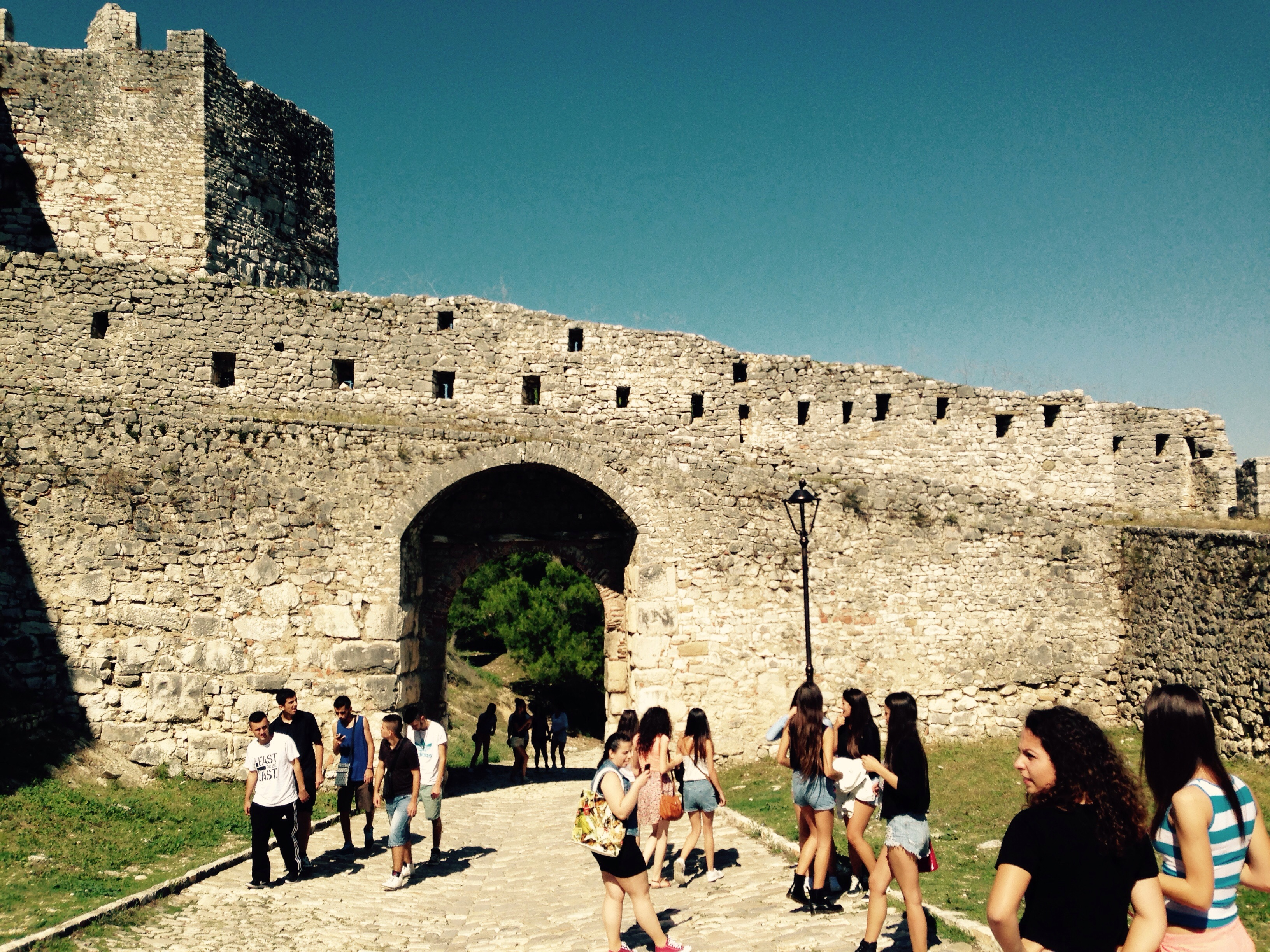 This is a photo of the Castle of Berat. I took this photo when I visited Albania last week.